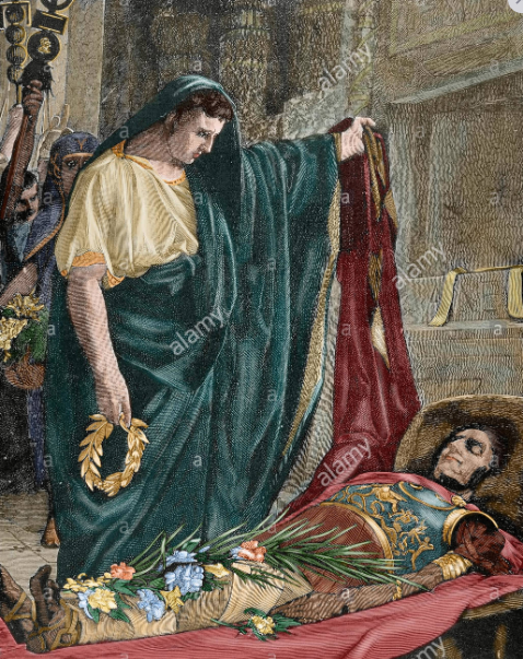 The Roman politician and General Marcus Antonius (83-30 BC)before the dead body of the Roman statesman Julius Caesar (100-44 B.C.). Engraving. 19th century. Colored.